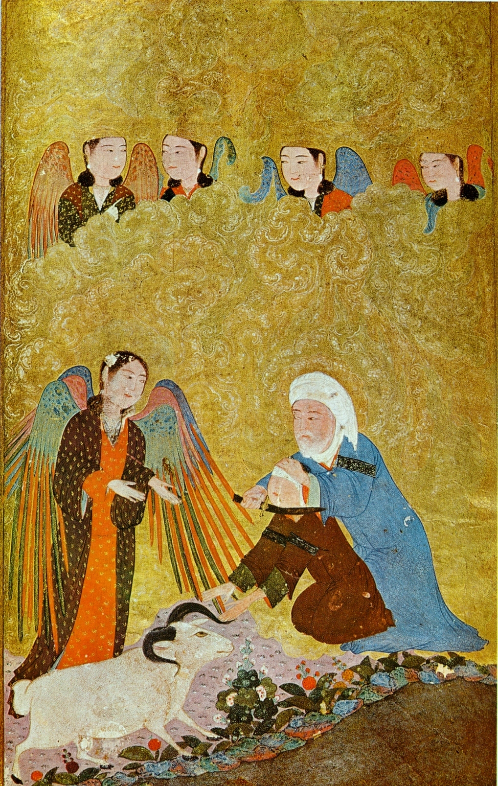 Ibrahim's (Abraham's) sacrifice. Timurid Anthology, Shiraz, 1410-11, Gulbenkian Museum, Lisbon.